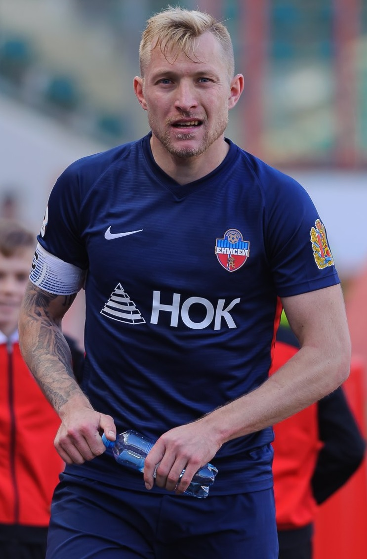 Valery Kichin with FC Yenisey Krasnoyarsk in a game against FC Lokomotiv Moscow.